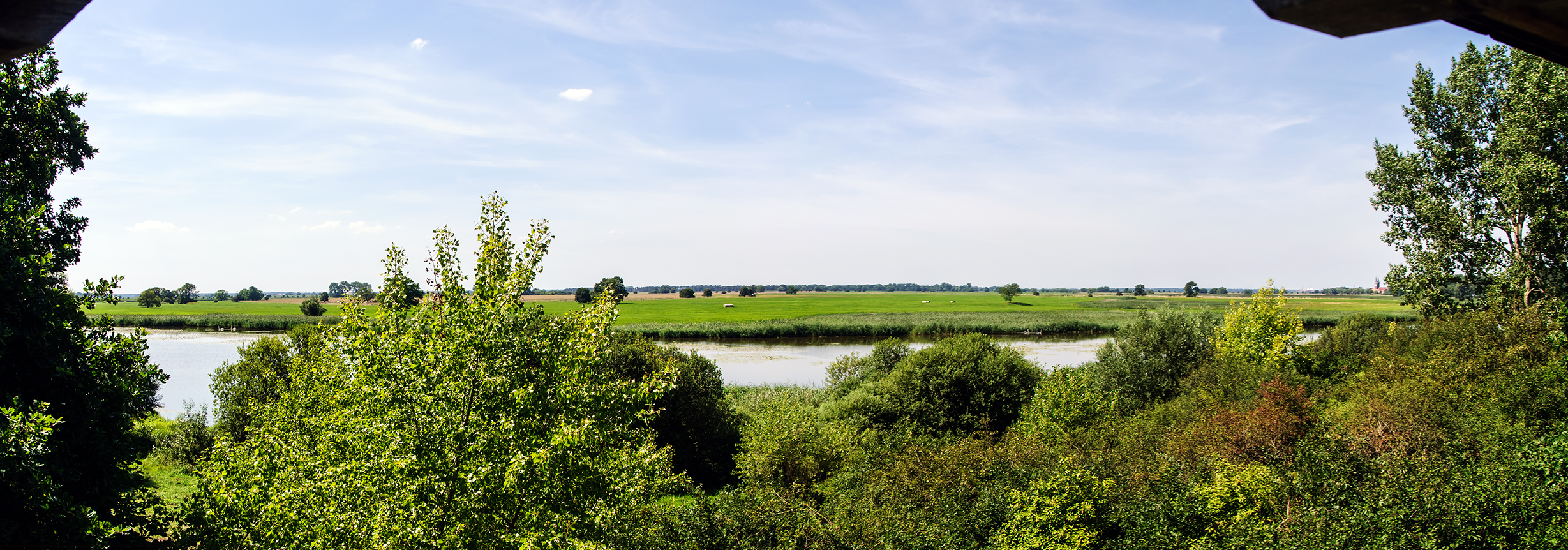 Nature reserve NSG 0043, Bucher Brack–Bölsdorfer Haken